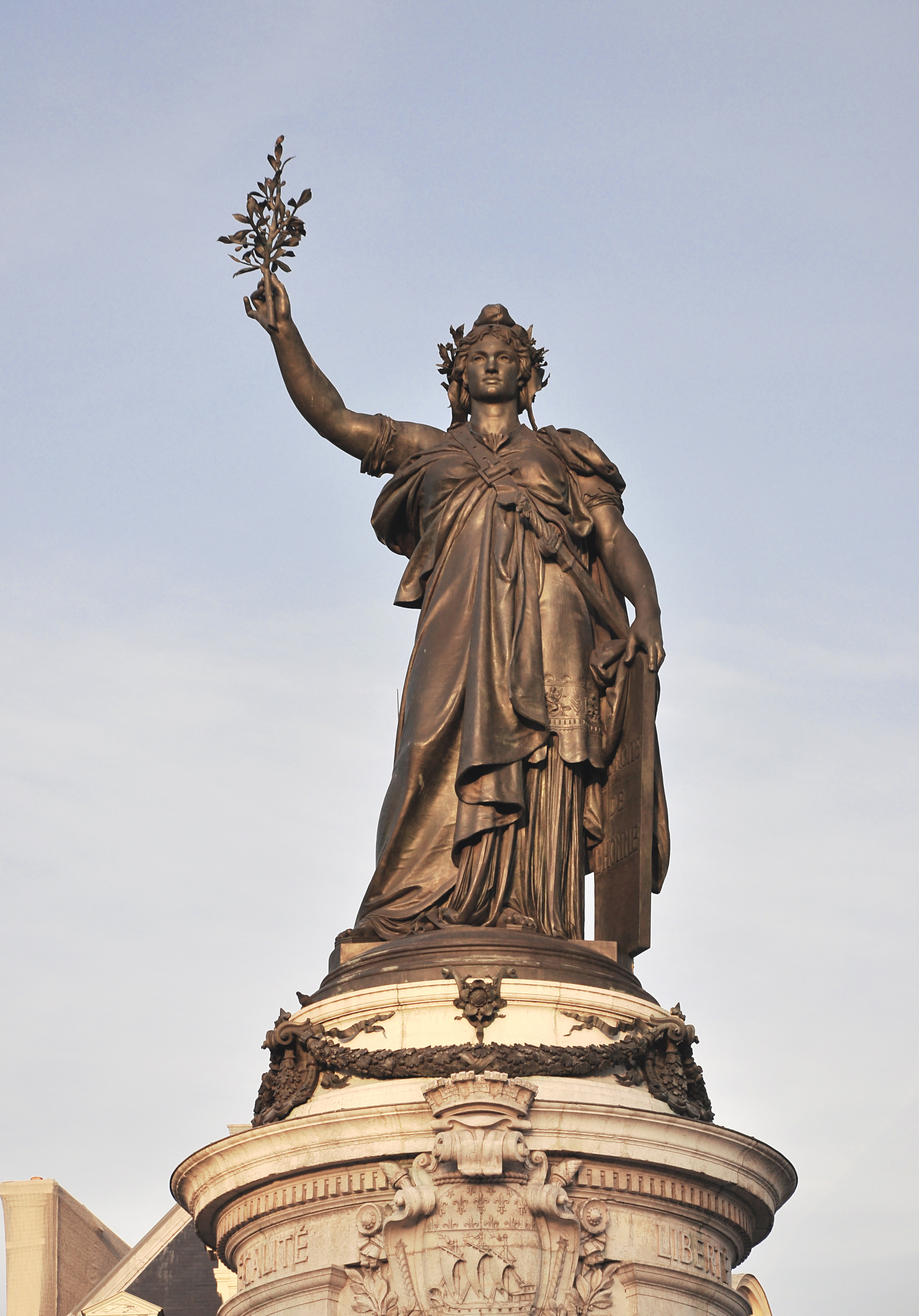 Statue of the Republic, the part of Monument to the Republic, situated at Place de la République in Paris, France. Leopold Morice is the author of the monument erected in 1883.